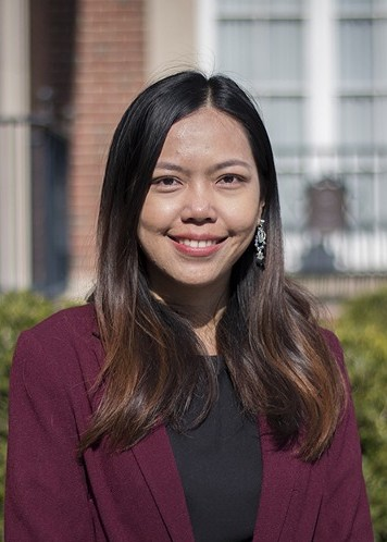 Sirikan Charoensiri derived from